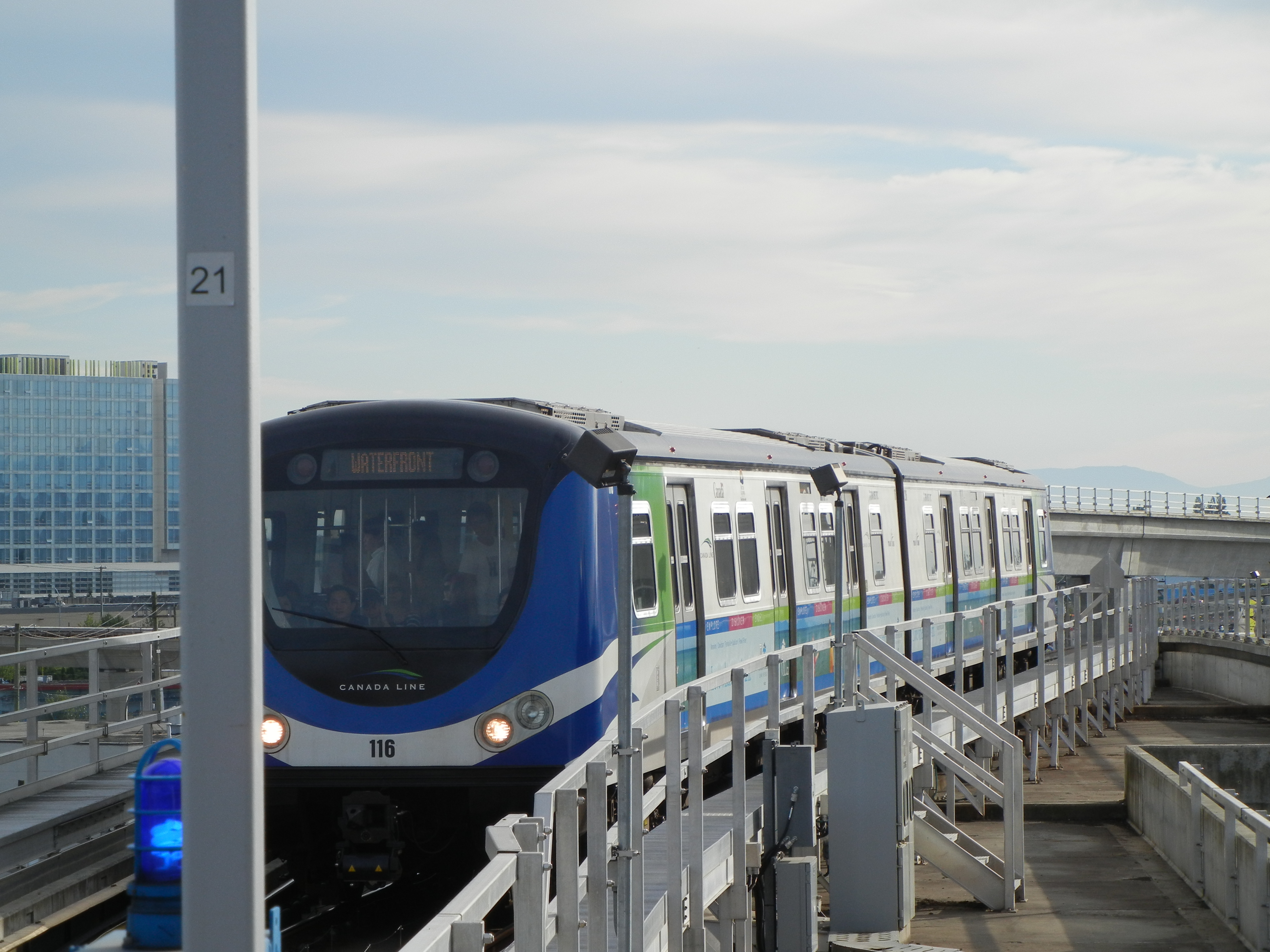 A train on the Cadana Line of TransLink's SkyTrain system pulling into a station in Vancouver, British Columbia.